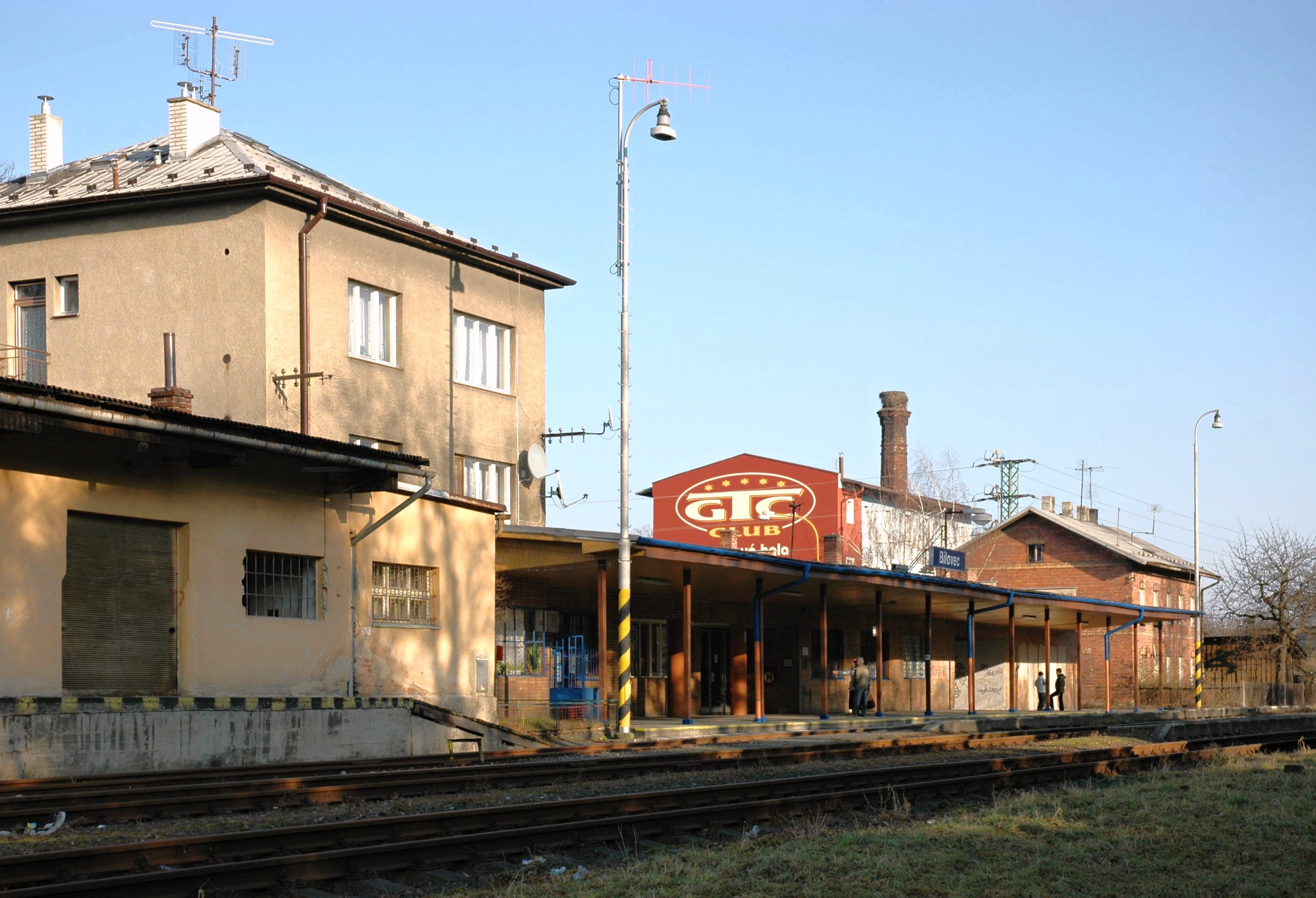 Bílovec railway station, the Czech Republic